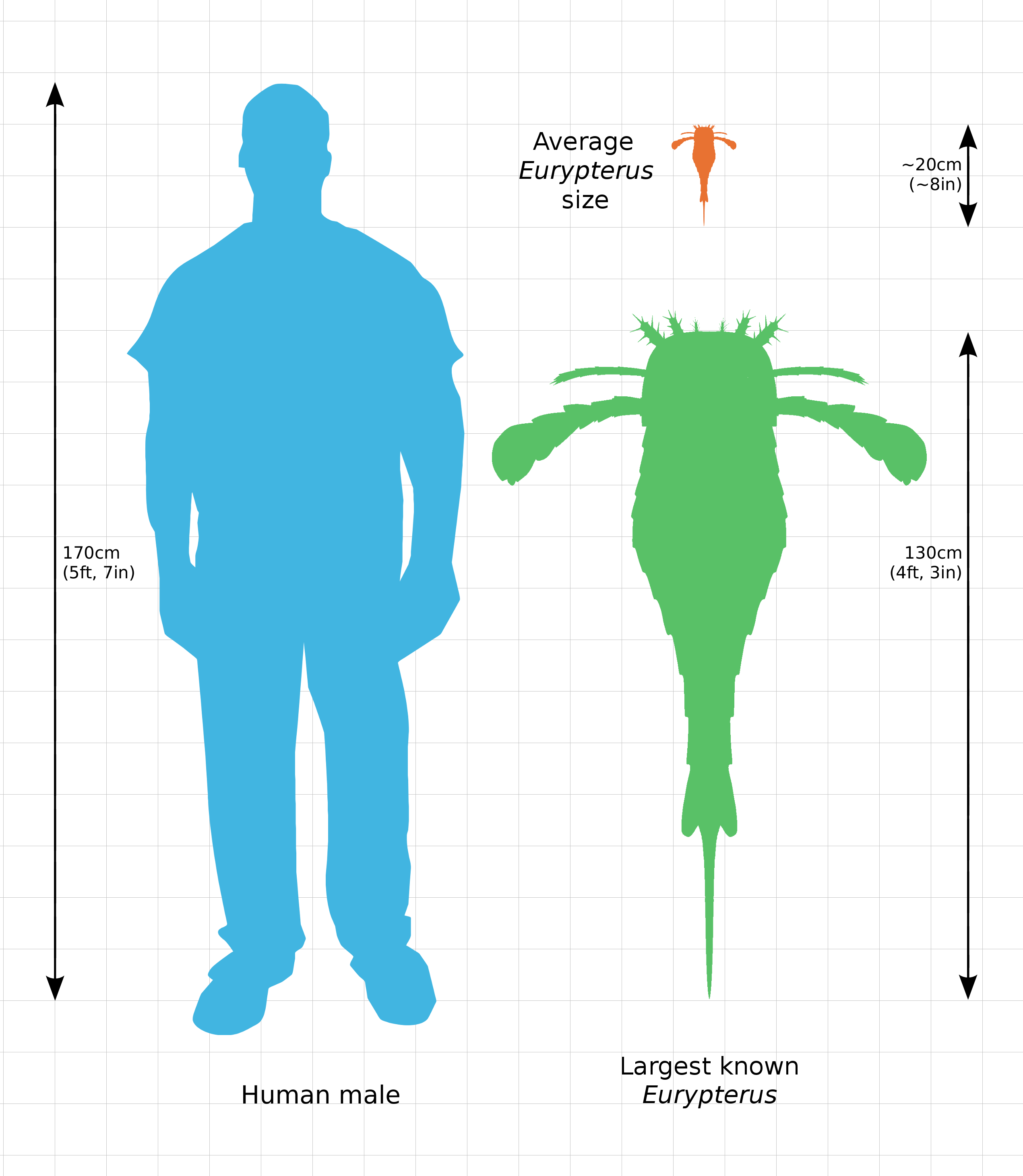 Scale comparison of an average Eurypterus specimen (around 20cm), the largest known Eurypterus fossil (130cm), and an average height adult human male (170cm)